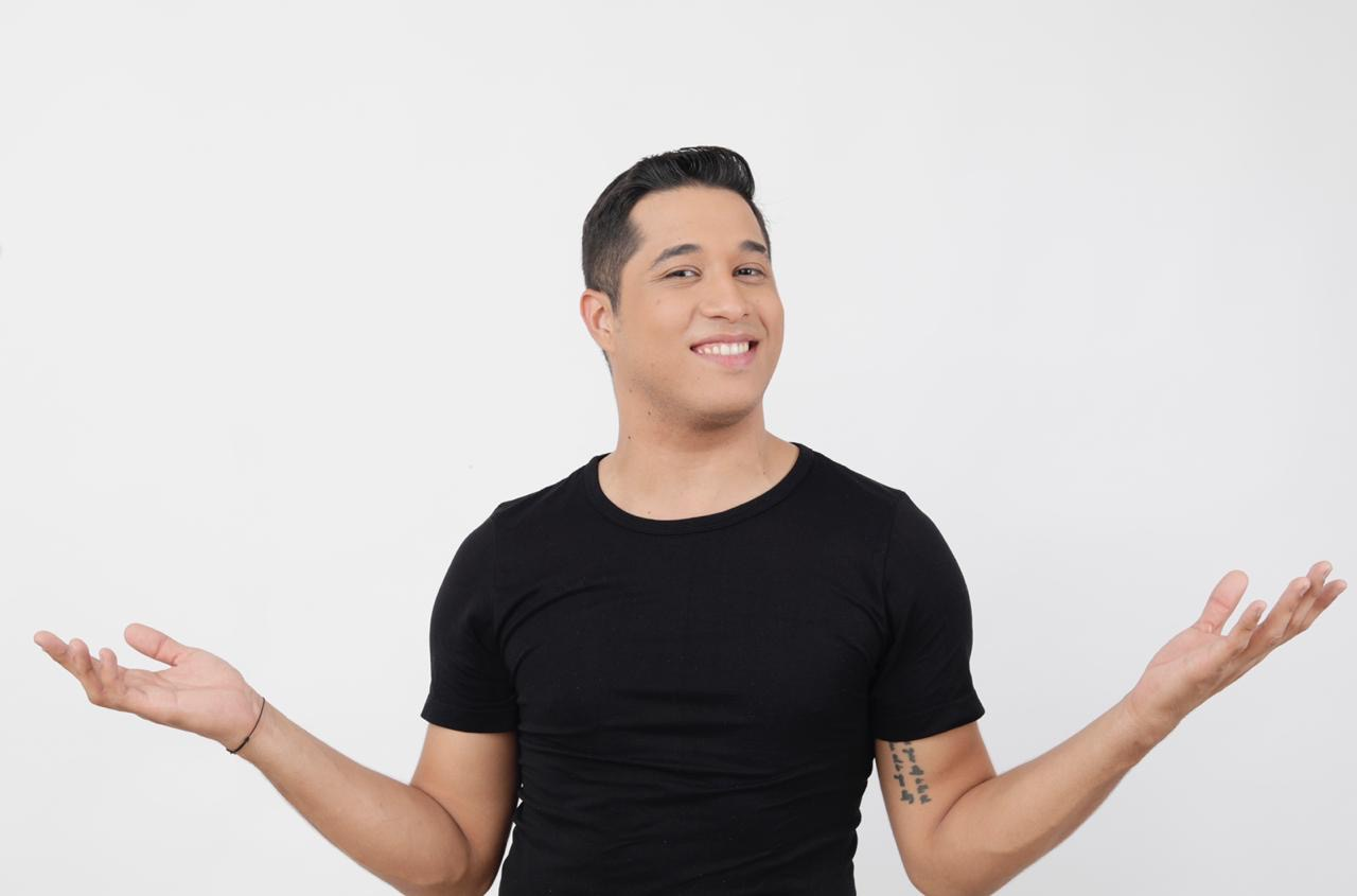 Manni Delvalle, paraguayan actor and comedian